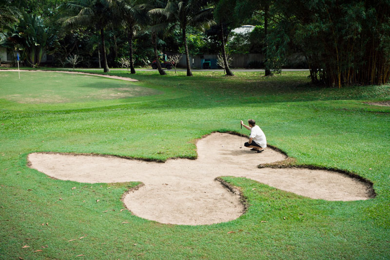 The butterfly bunker on the 9th hole of the golf course